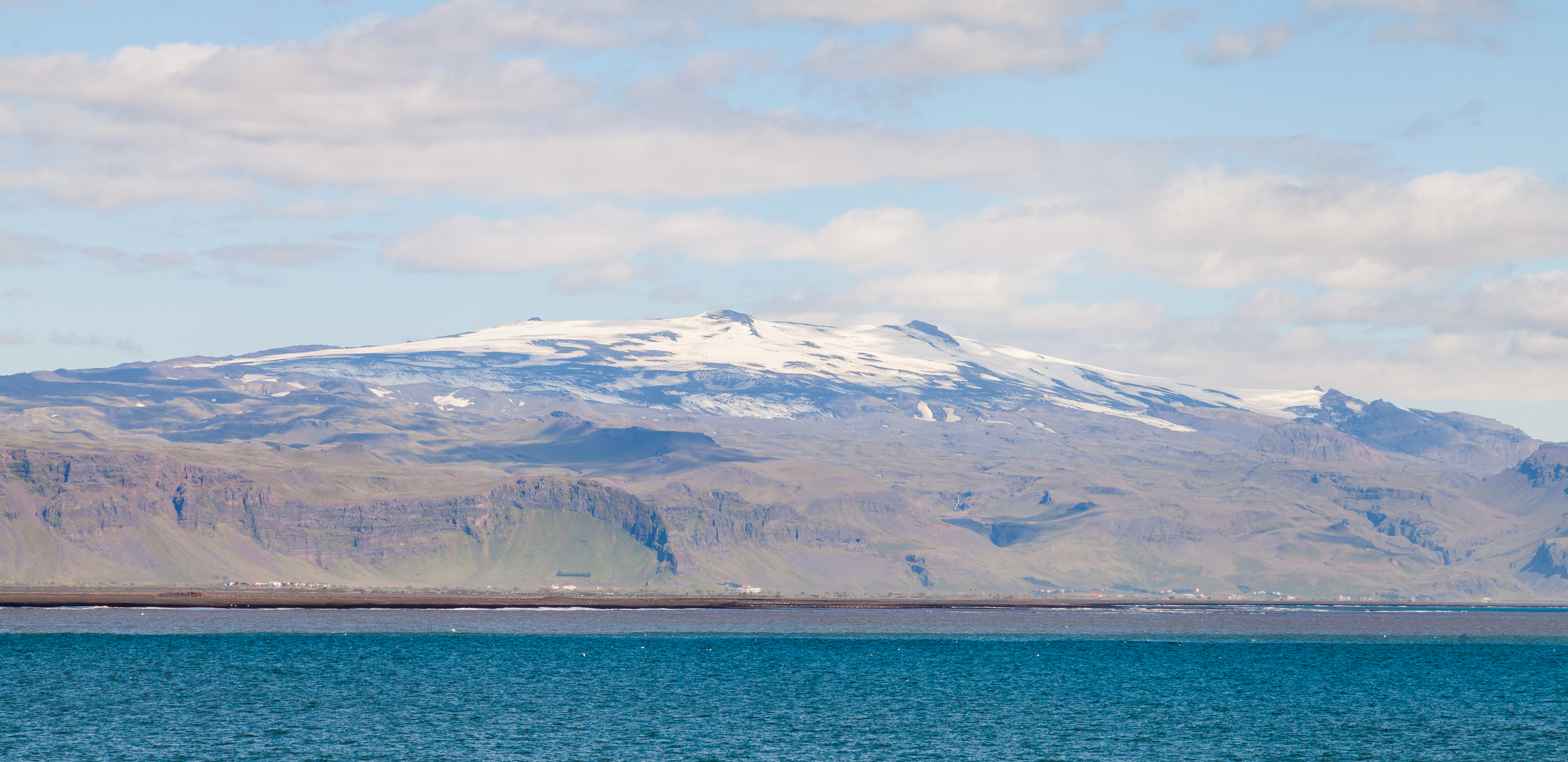 Eyjafjallajökull, Suðurland, Iceland